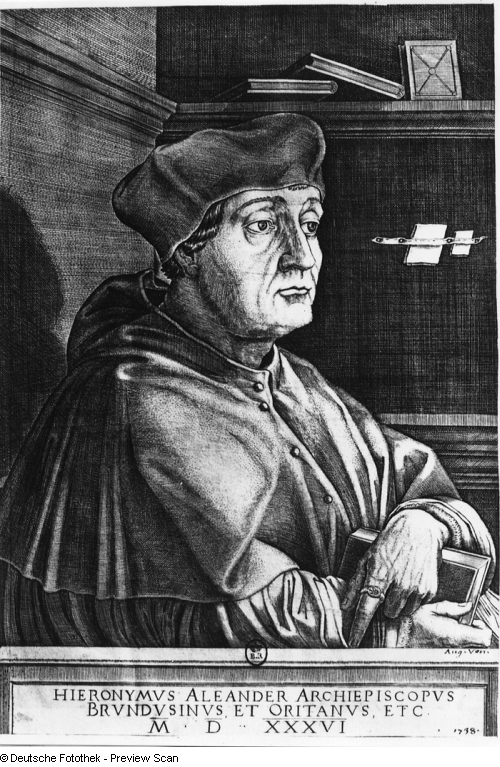 Girolamo Aleandro (also Hieronymus or Jerome Aleander) (February 13, 1480 - February 1, 1542) was an Italian cardinal